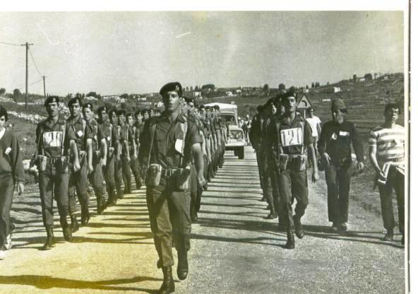 Israel Defense Forces